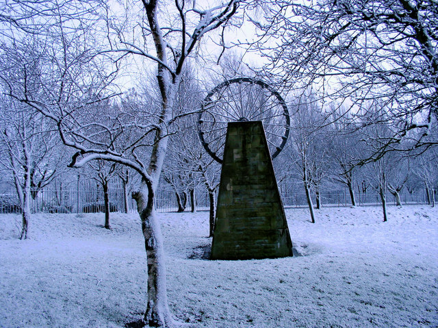 Bank Hall Park Parkland made on former colliery, the pit opened 6th April 1865 and closed June 1971